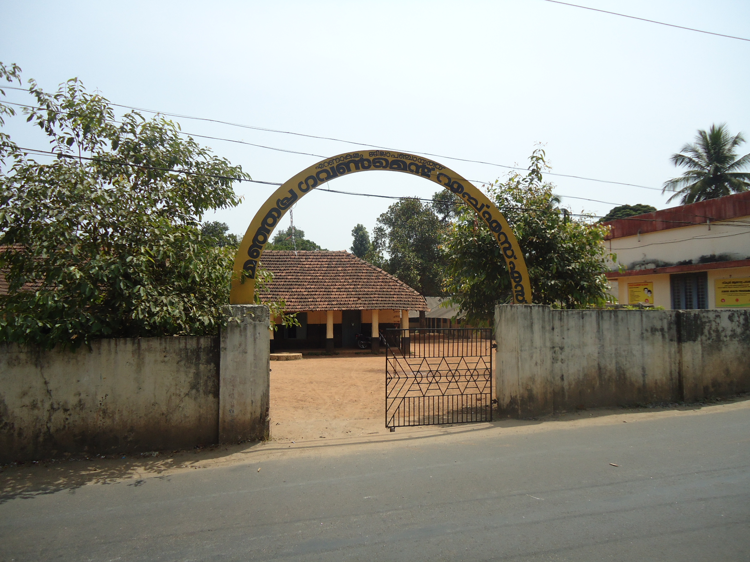 Govt higher Secondary School Manjapra Gate 2